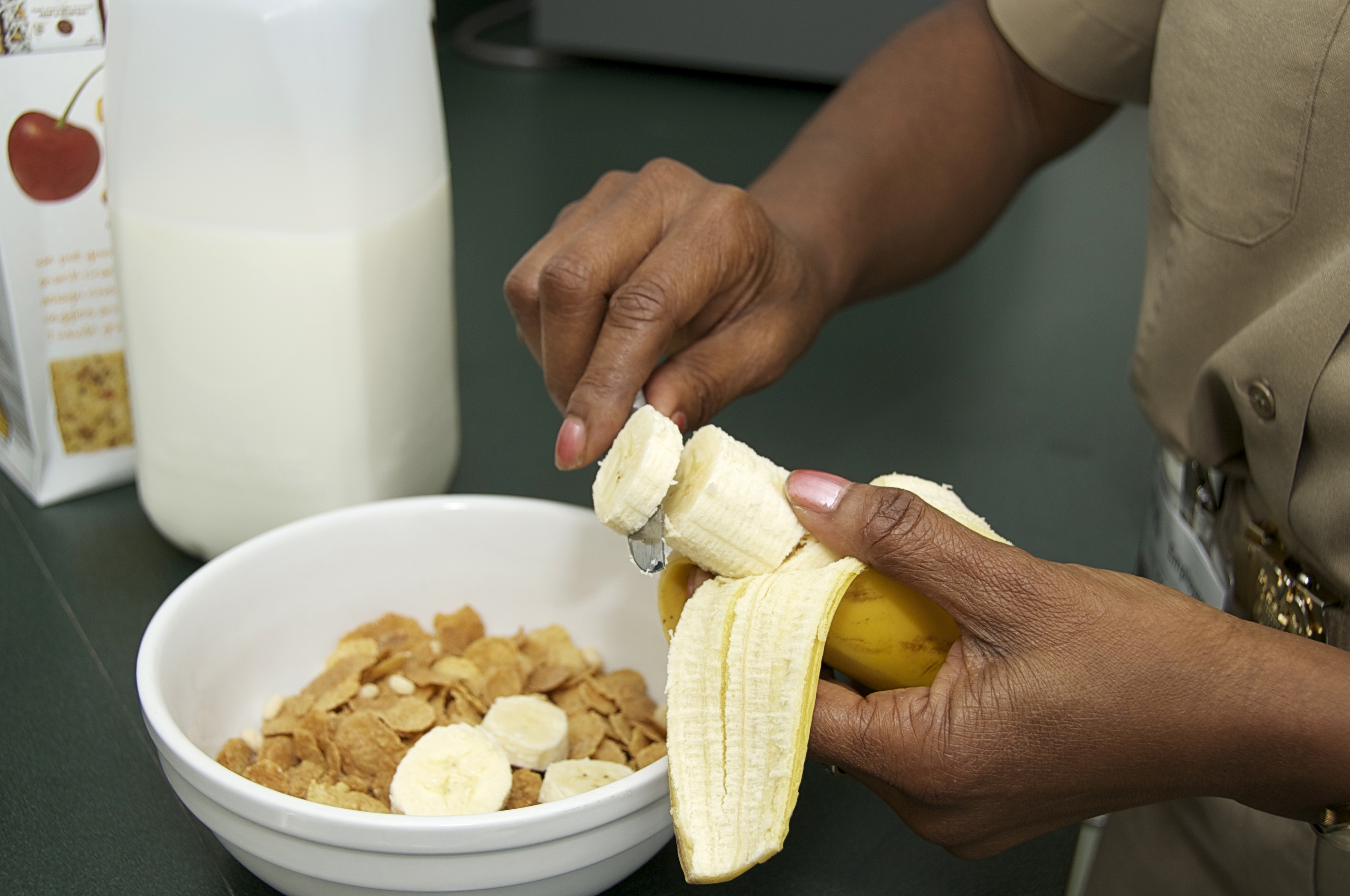 FDA nutrition expert Shirley Blakely, a registered dietitian, says using the Nutrition Facts and list of ingredient on prepared foods are the keys to healthy eating. To learn more read this Consumer Update: [